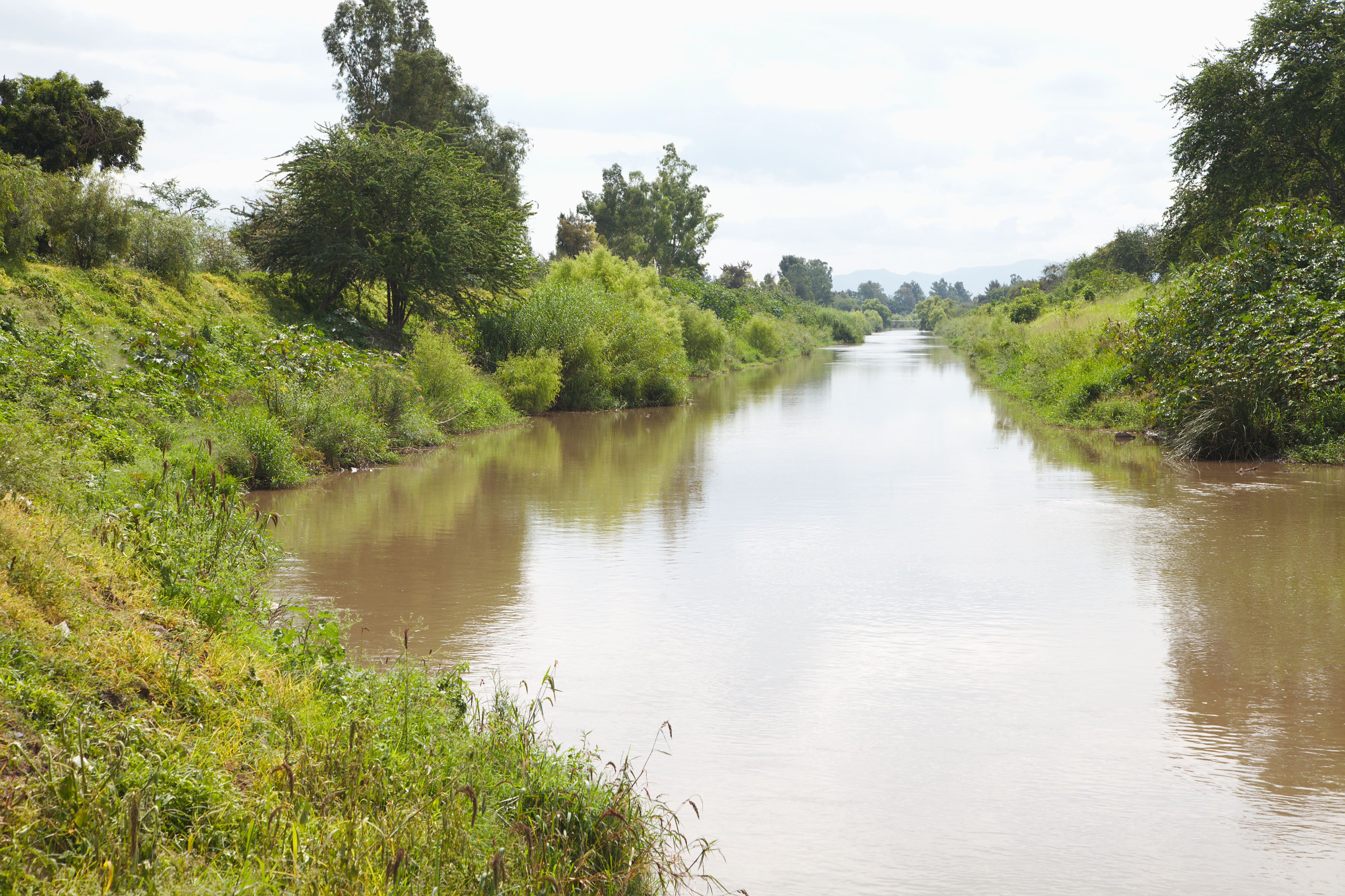 Rio Ameca